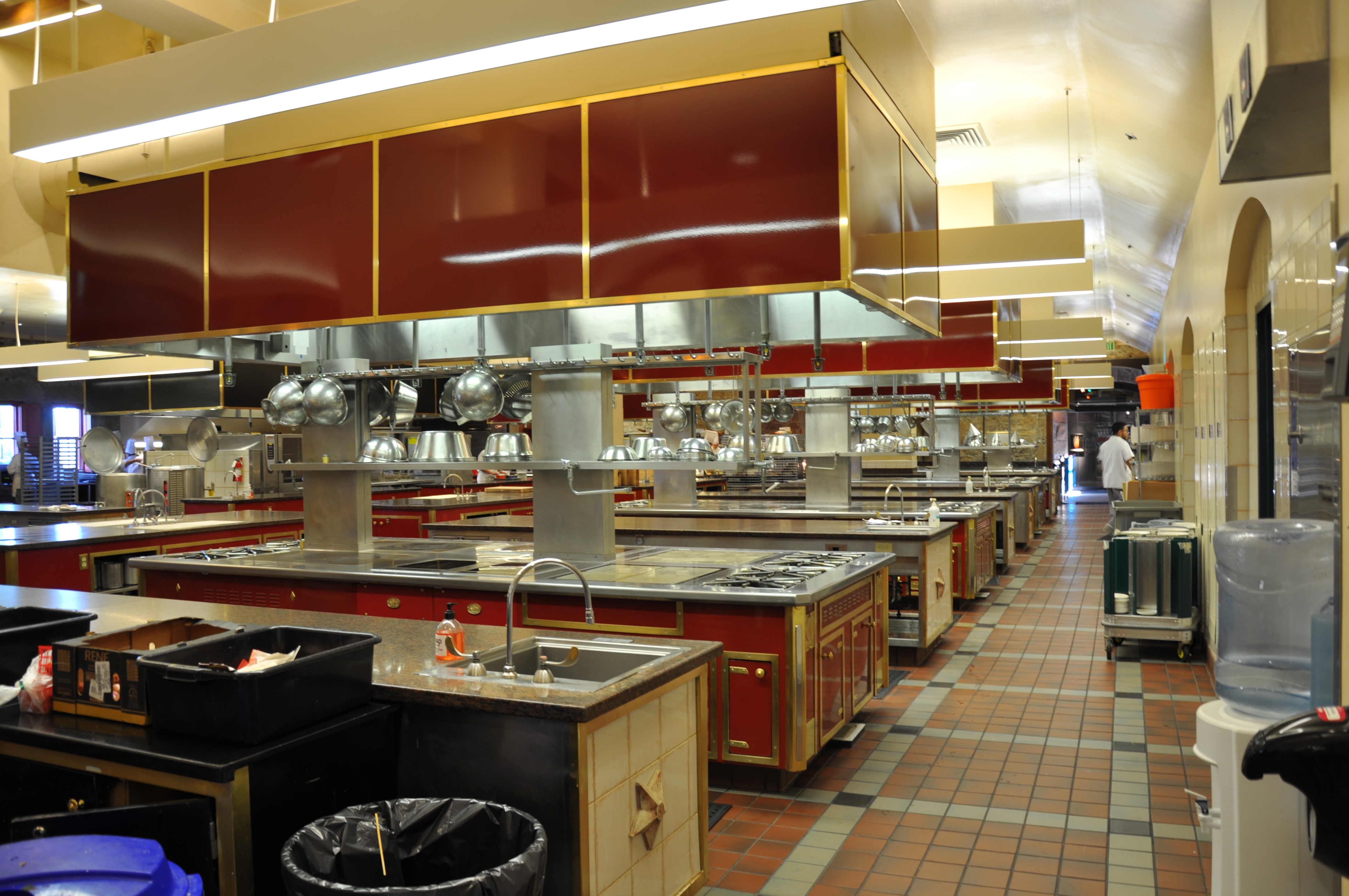 Teaching Kitchens at The Culinary Institute of America at Greystone